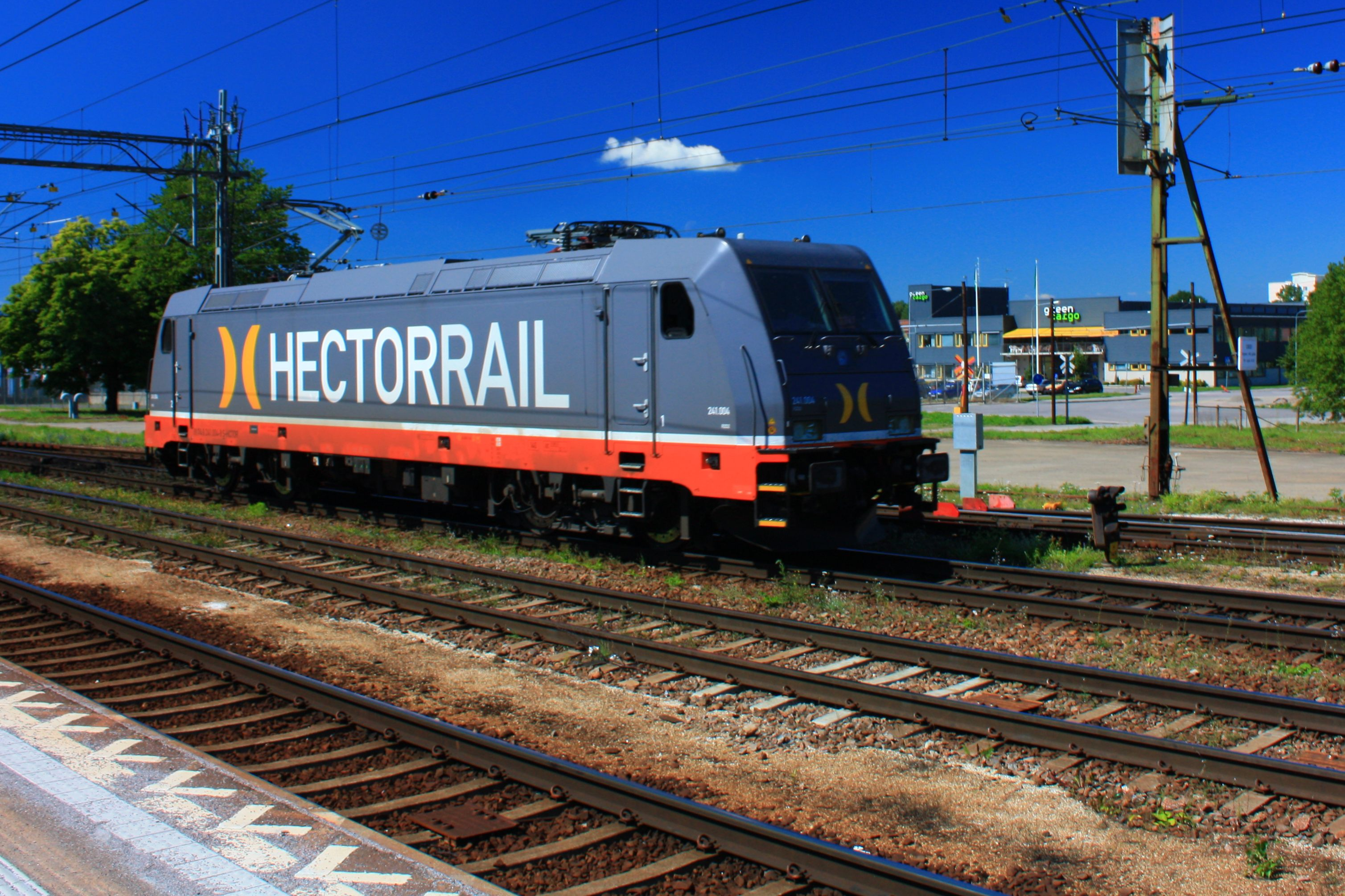 Hector rails 241 nr 004 fotograferad i Hallsberg